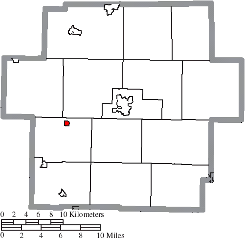 Map of the municipal and township boundaries of Carroll County, Ohio, United States, as of the 2000 census, with the location of the village of Dellroy highlighted. Township borders are shown only in unincorporated areas in order to differentiate incorporated and unincorporated areas more clearly.